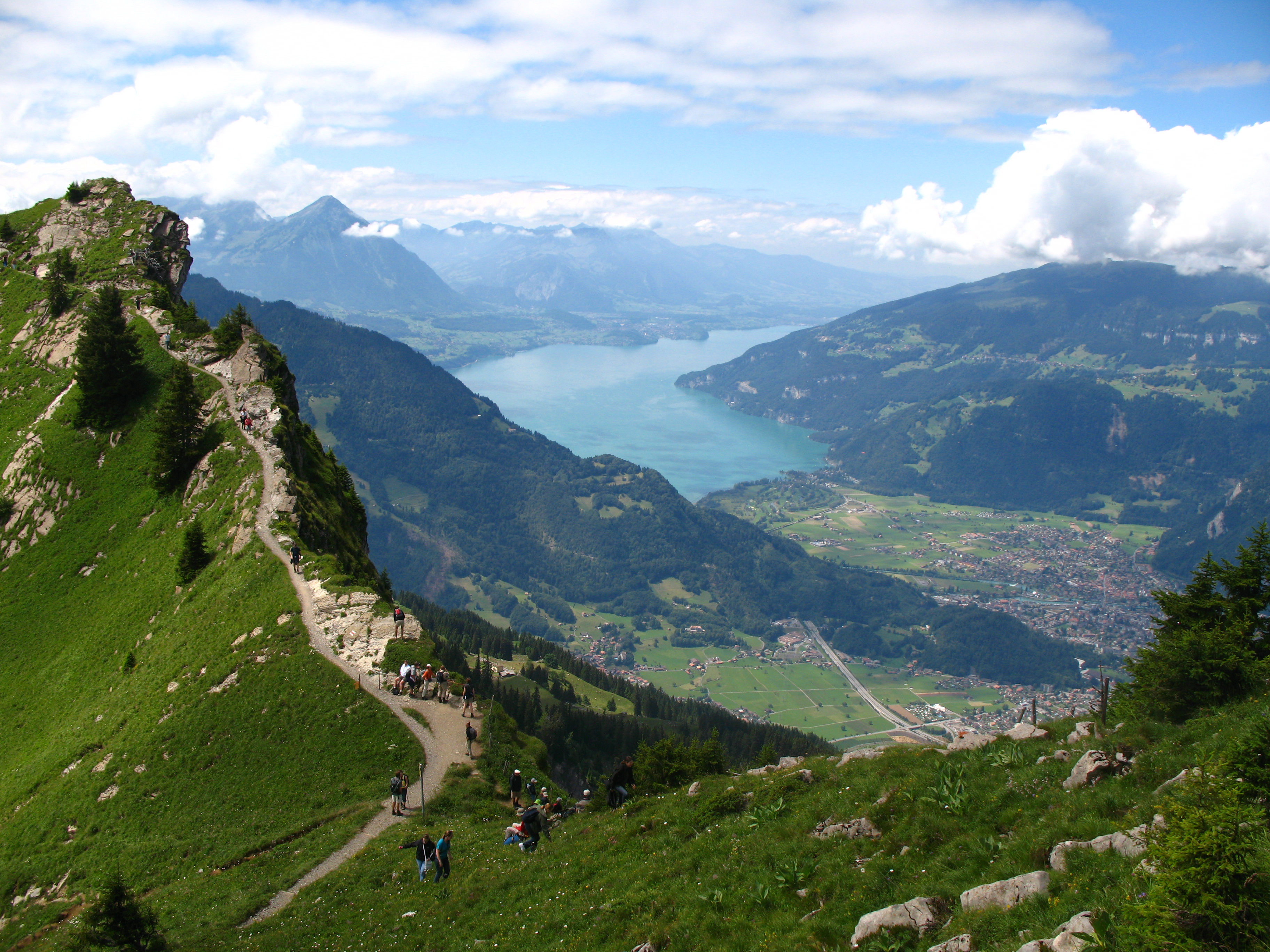 Lake Thun, Interlaken, Matten, Dreispitz, Morgenberghorn, and Abendberg viewed from Oberberghorn, Schynige Platte, Switzerland